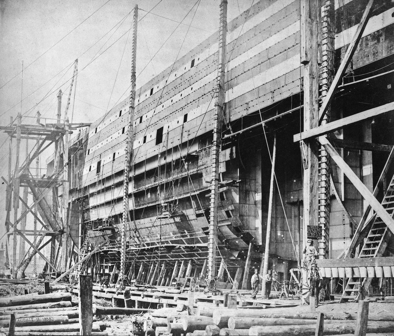 Reproduction ID: D0676 Maker: Joseph Cundall Date: 18 August 1855 Find out more about this image on Collections